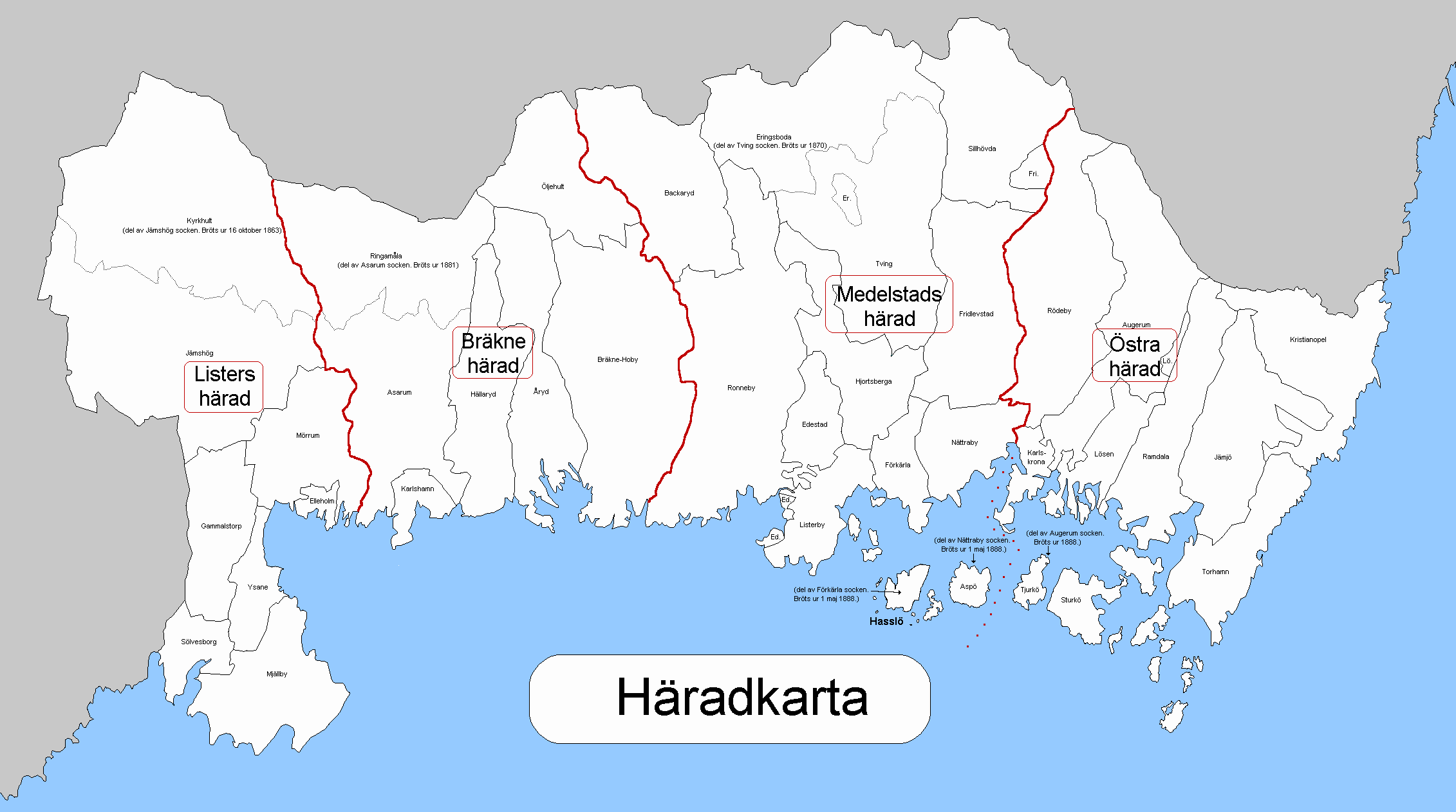 härader in Blekinge